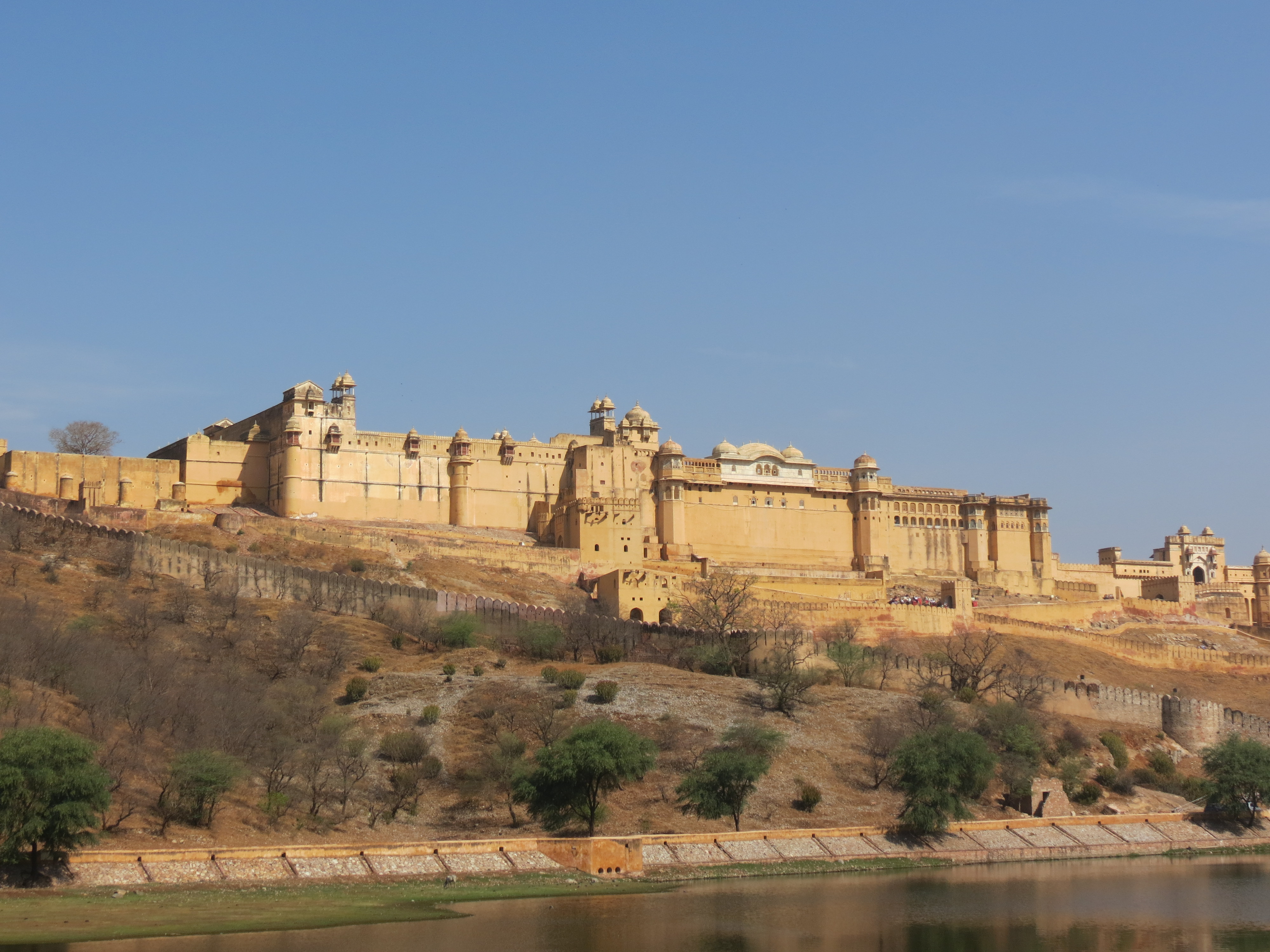 View of Amber Fort and Palace.